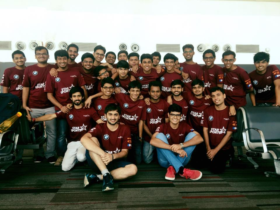 Team member of the 2016 Season